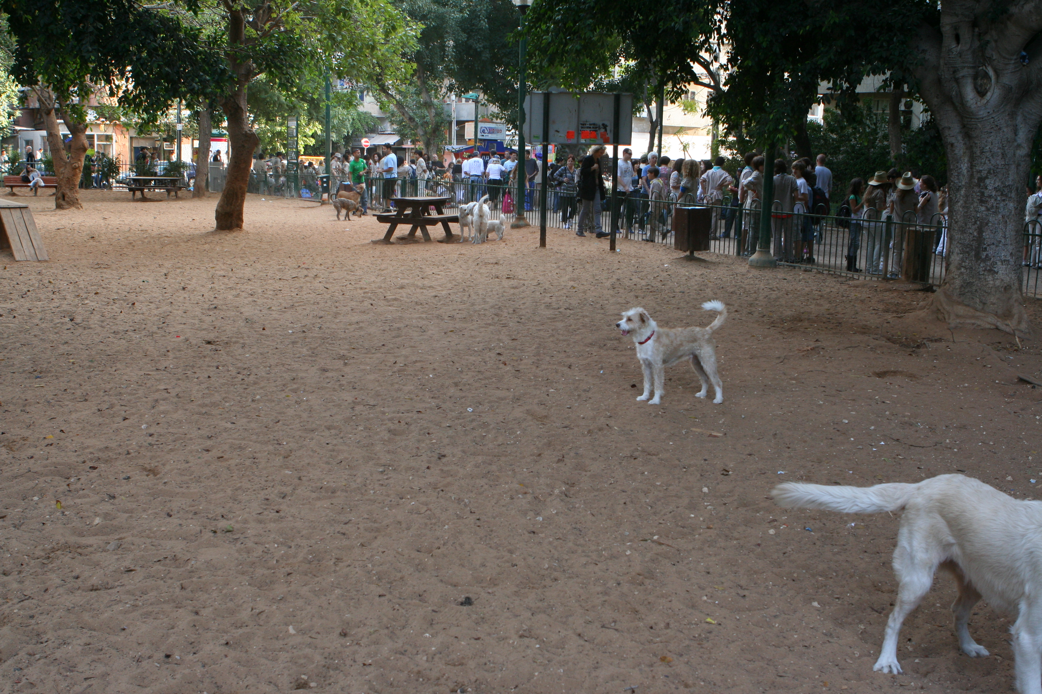 Open space for dogs in Gan Meir (Meir Garden) in Tel Aviv